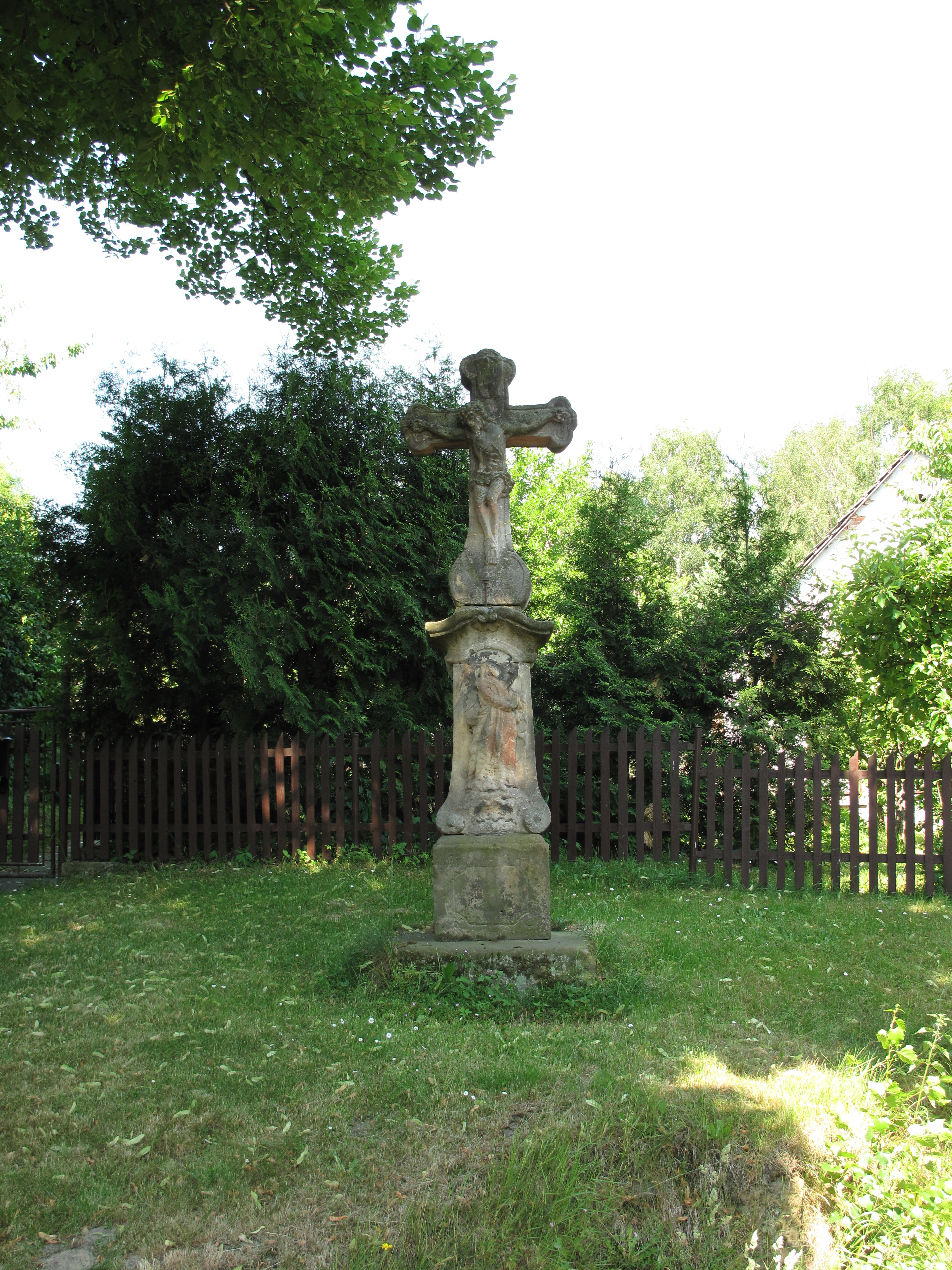 Wayside cross in Svatoňovice village (Karlovice municipality), Semily District, Czech Republic.